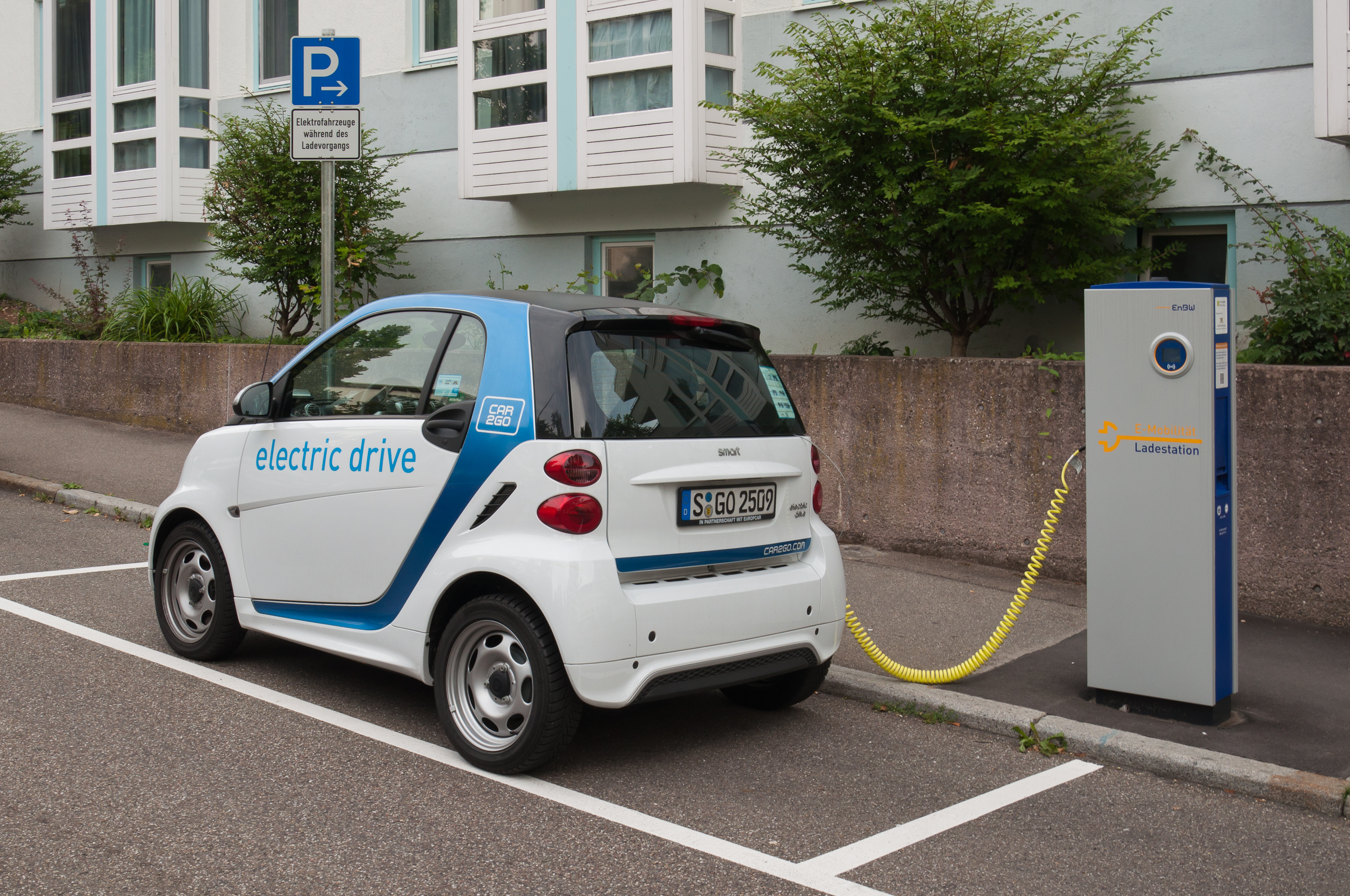 Car2Go electric charging station in Stuttgart with a 3rd generation Smart electric car.